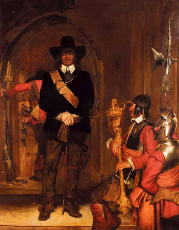 old painting